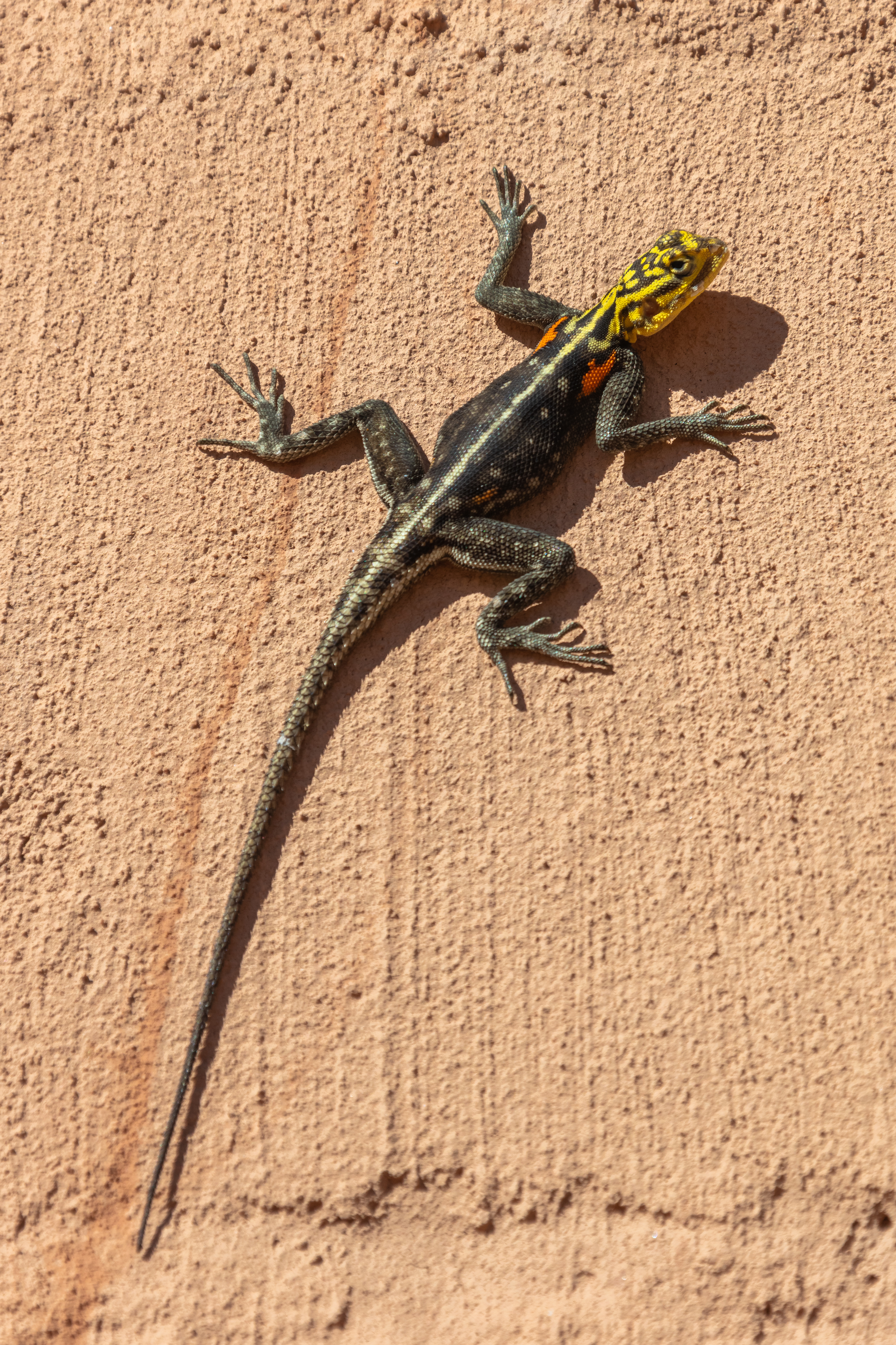 Namib rock agama (Agama planiceps), Namib-Naukluft National Park, Namibia